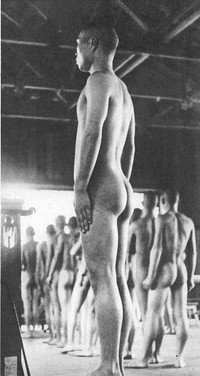 a scene of the physical examination for conscription in Japan